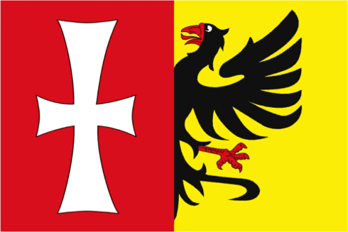 Flag of the city of Manětín, Plzeň-North District